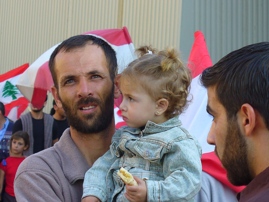 Down Town Lebanon, where around 1 million people demonstrated against the government and the prime minister demanding from him to resign.